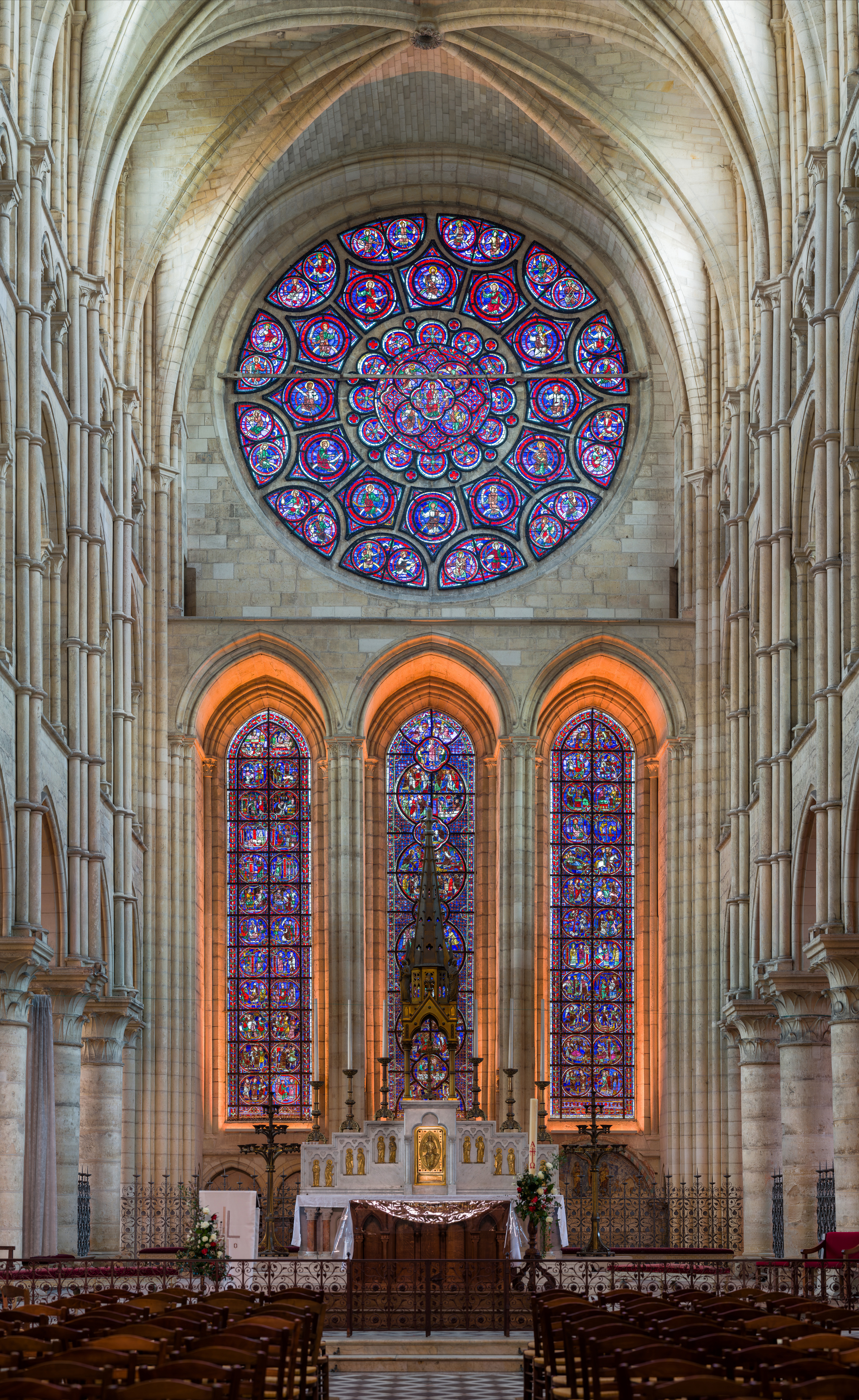 The east window of Laon Cathedral in Picardie, France.